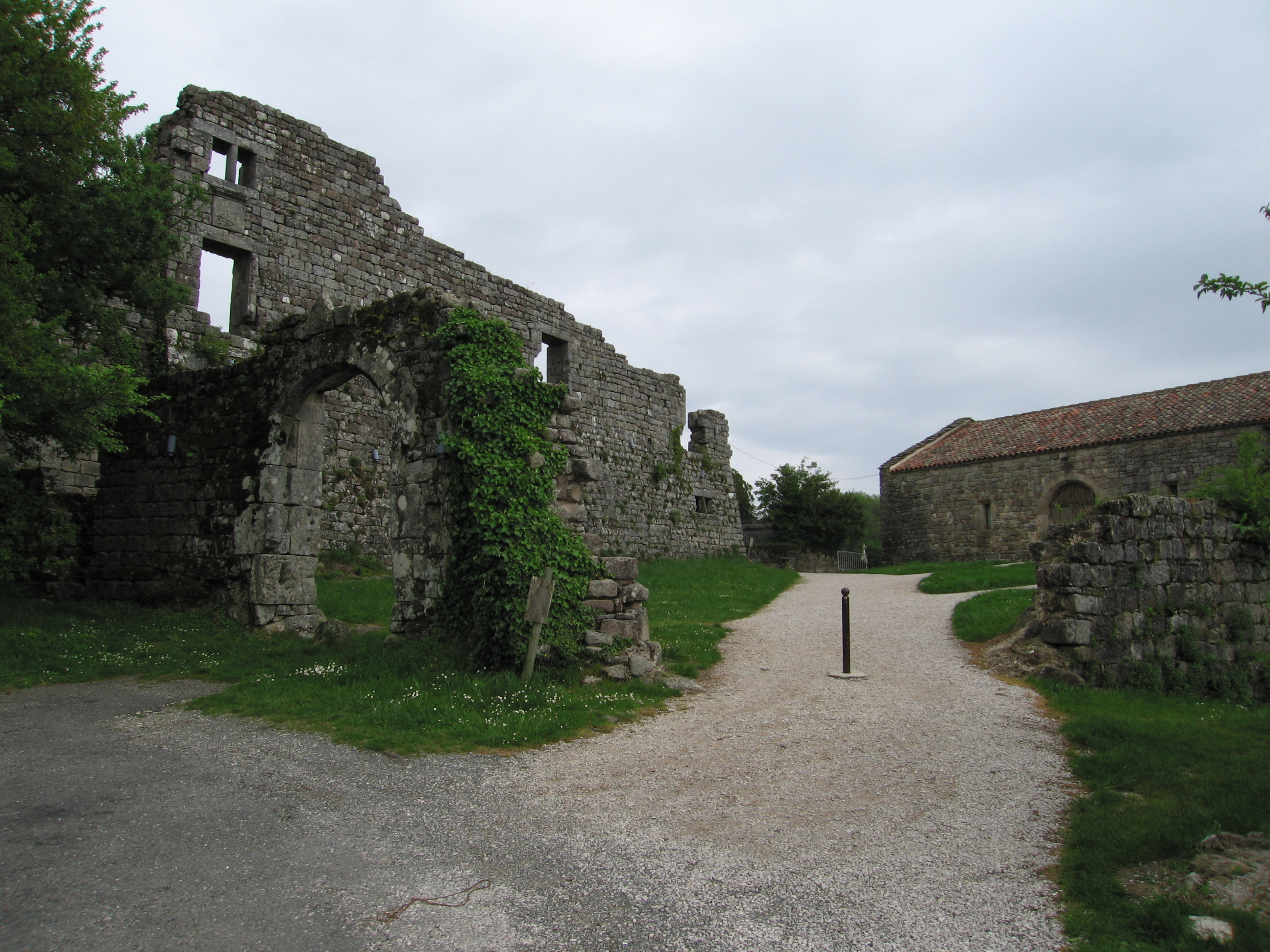 Main entrance of the castle of Vaour, Tarn, France